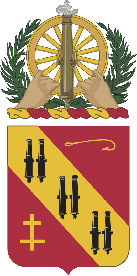 5th Coast Artillery Regiment Coat of Arms